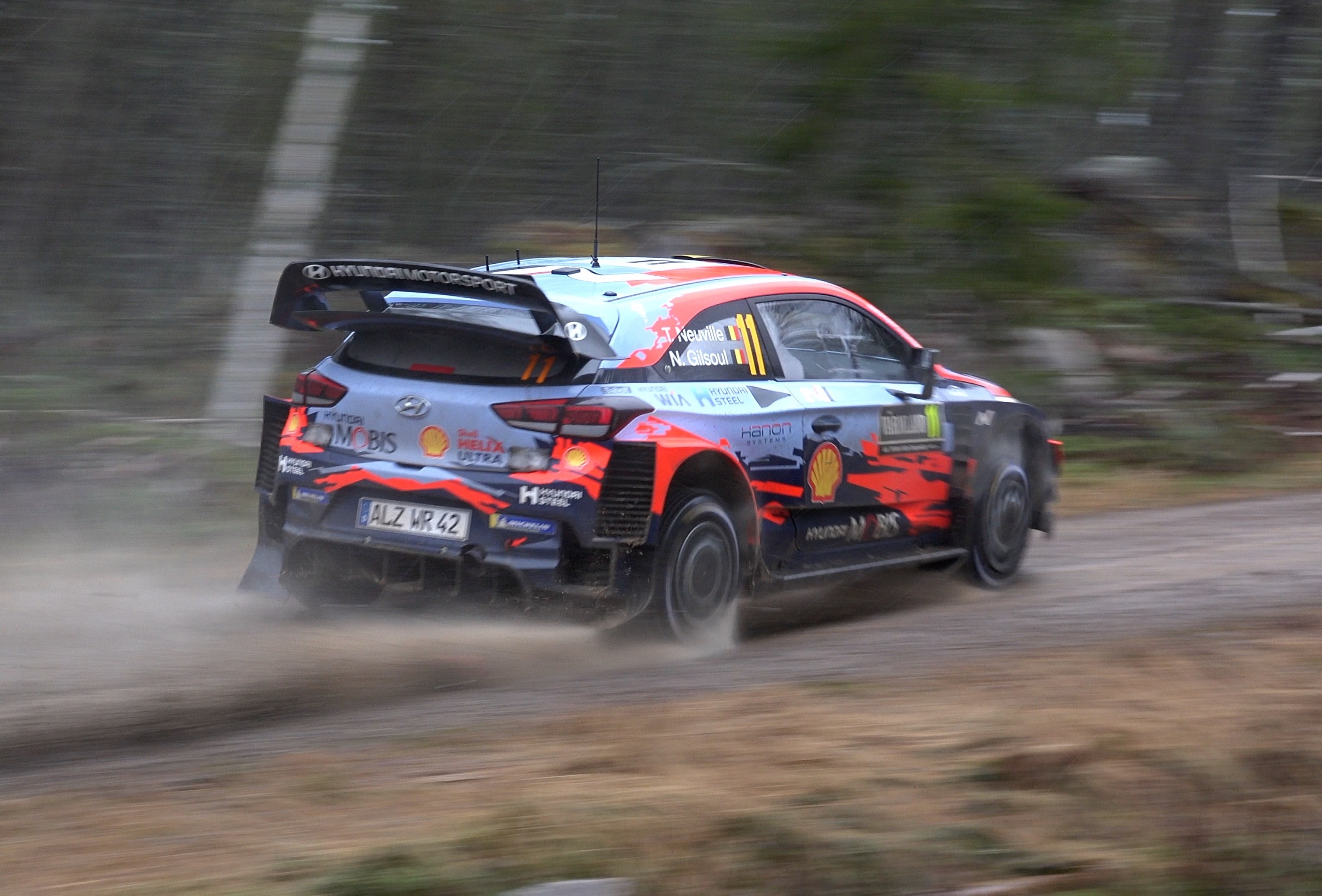 Neuville at Rally Sweden 2020.